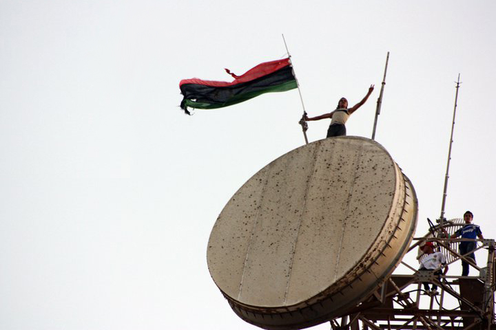 Libyan flag above the communications tower in Al Bayda - Libya.